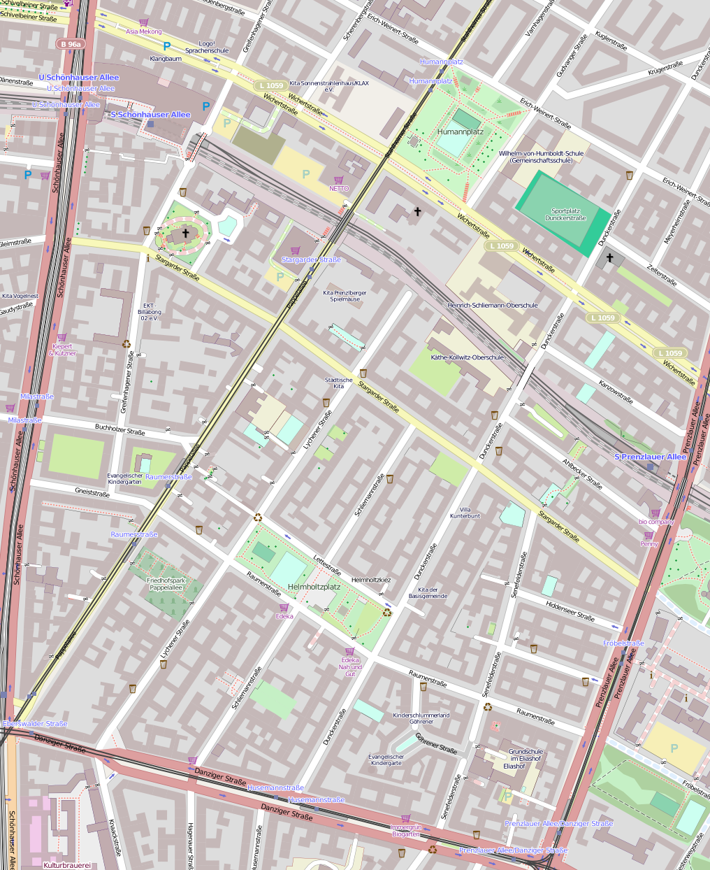 Helmholtzkiez